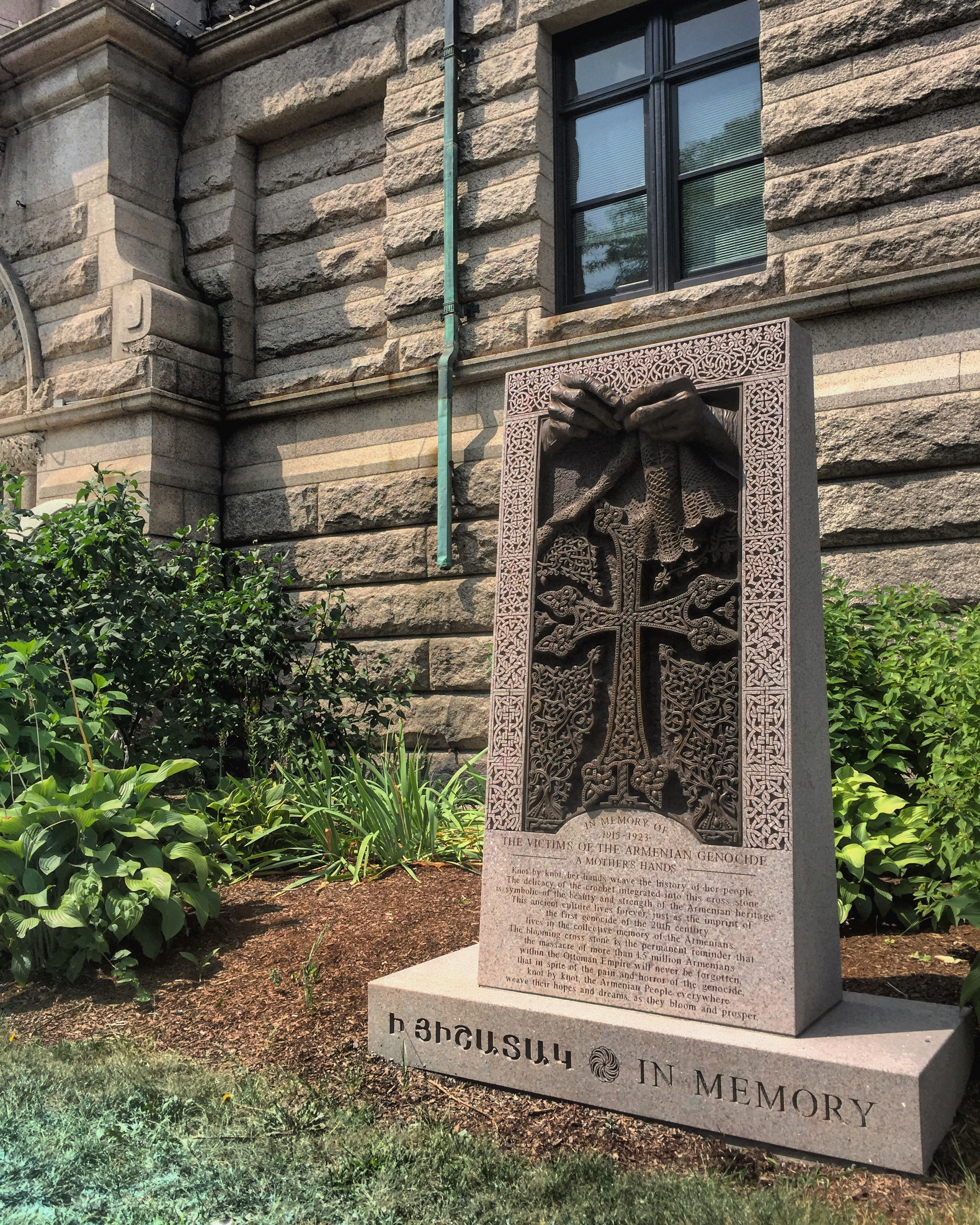 "A Mother's Hands" - Monument Dedicated to the Armenian Genocide Artist: Daniel Varoujan Hejinian (2014) This genocide memorial is to not acknowledge the killing of 1.5 million people from 1915 to 1923 and is the first Armenian Genocide monument unveiled on the site of a government building in the U.S.The monument is made of bronze and granite and there are two three-dimensional hands at the top of the piece of art showing a mother's hands crocheting. At the bottom of the structure is inscribed the words "In Memory" both in English and Armenian. Location: 375 Merrimack Street (outside City Hall)